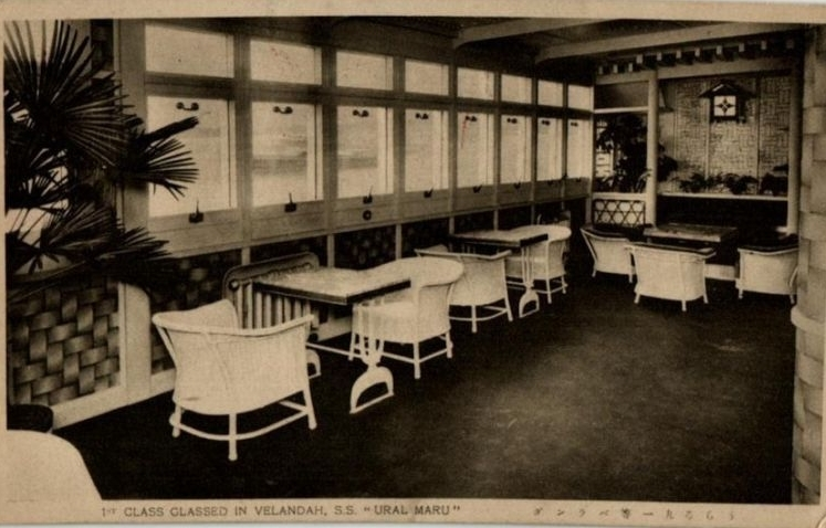 OSK Line Ural Maru interior, 1930s postcard